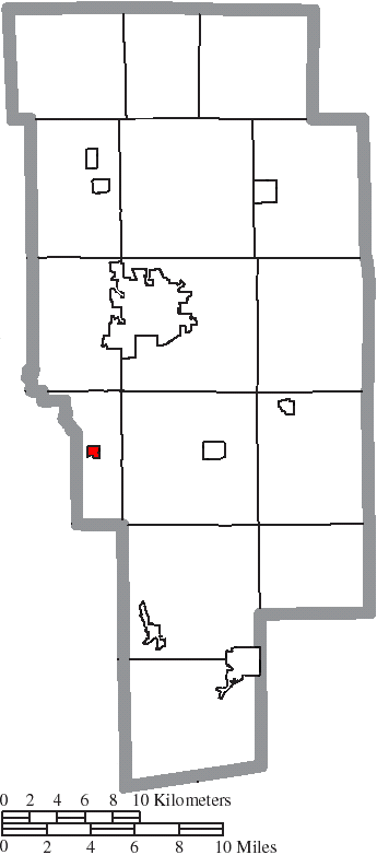 Map of the municipal and township boundaries of Ashland County, Ohio, United States, as of the 2000 census, with the location of the village of Mifflin highlighted. Township borders are shown only in unincorporated areas in order to differentiate incorporated and unincorporated areas more clearly.